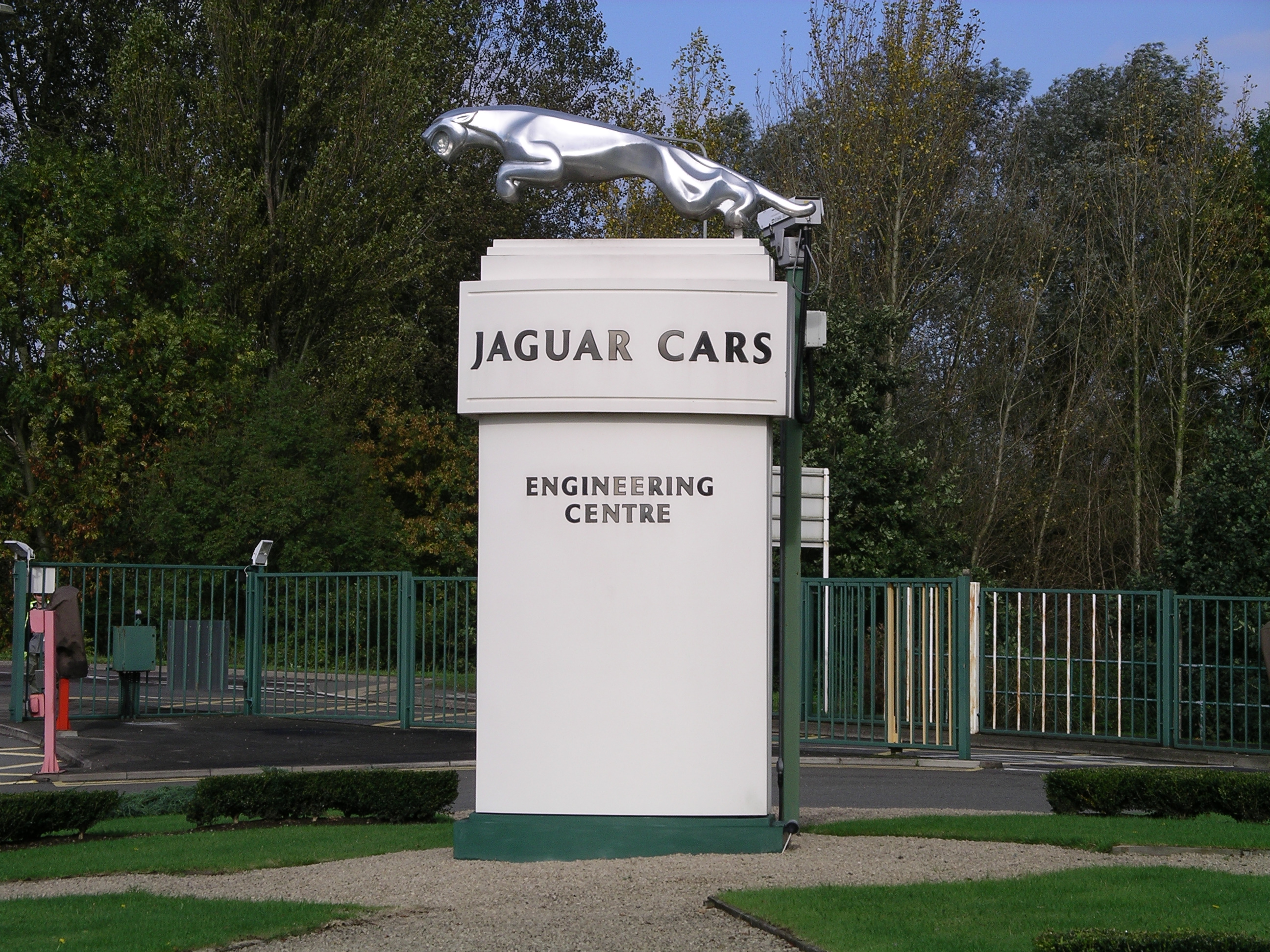 Jaguar sign, Whitley, Coventry, England. Photo taken on 19 October 2006.